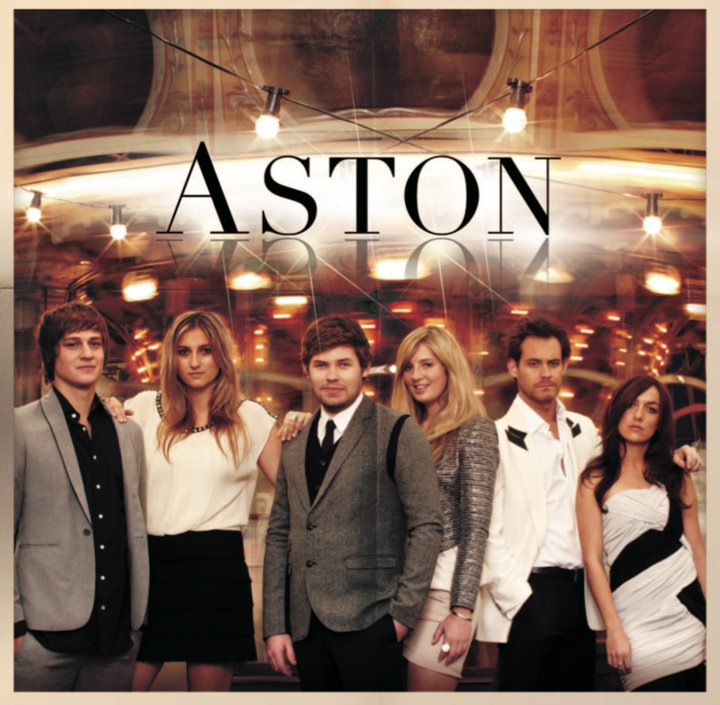 Picture of the band Aston.